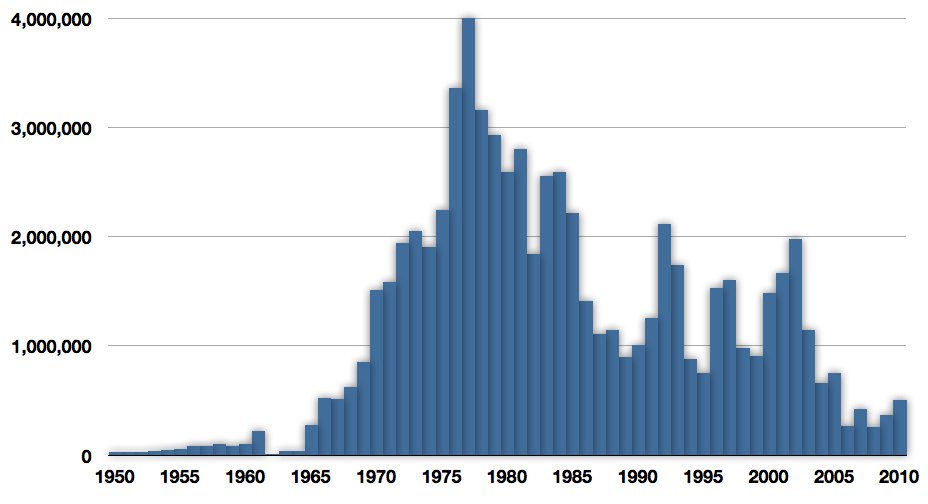 Global fisheries capture of capelin, Mallotus villosus, from 1950 to 2010 as reported by the FAO. Data source FAO fisheries